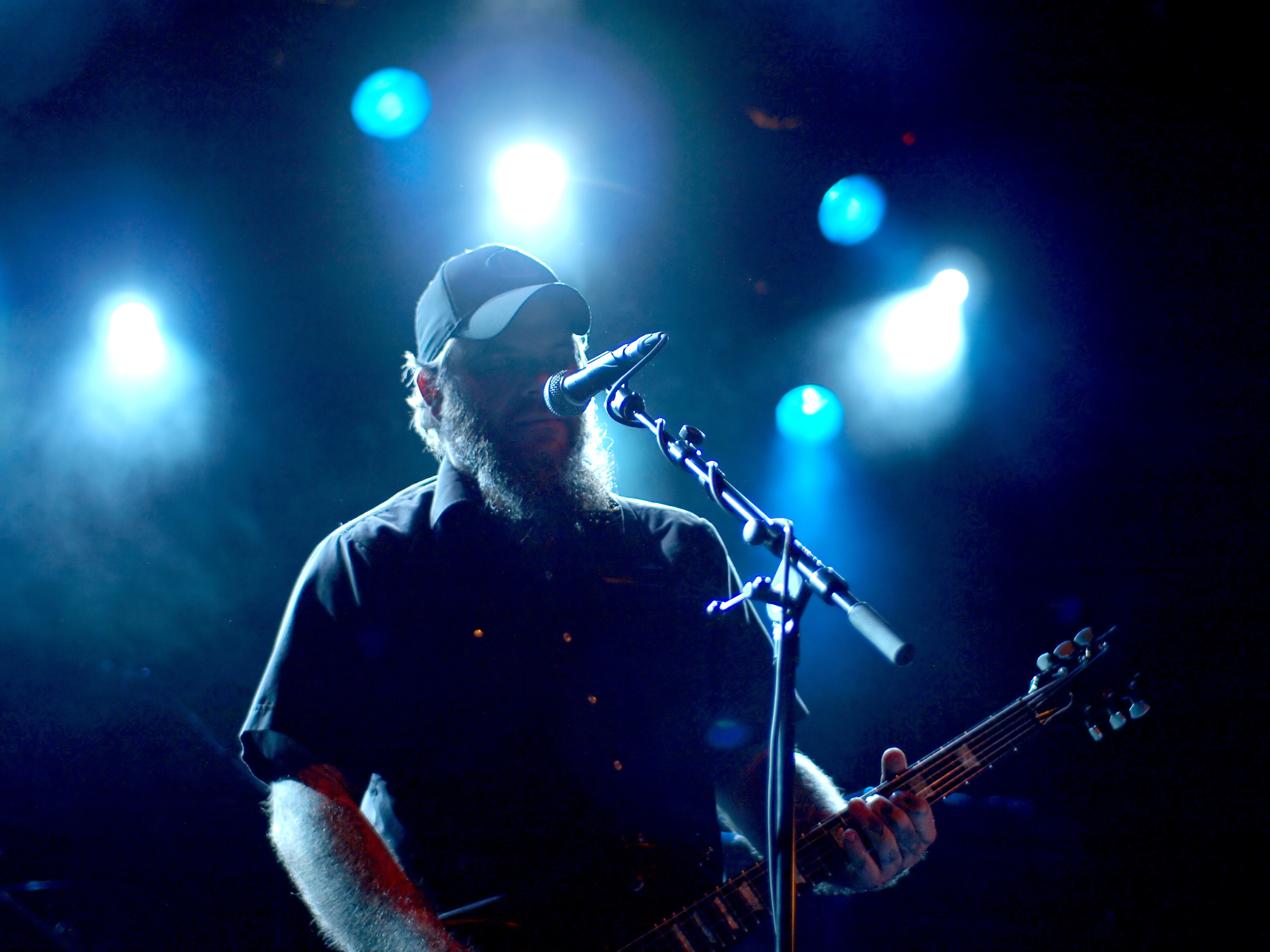 Scott Kelly solo